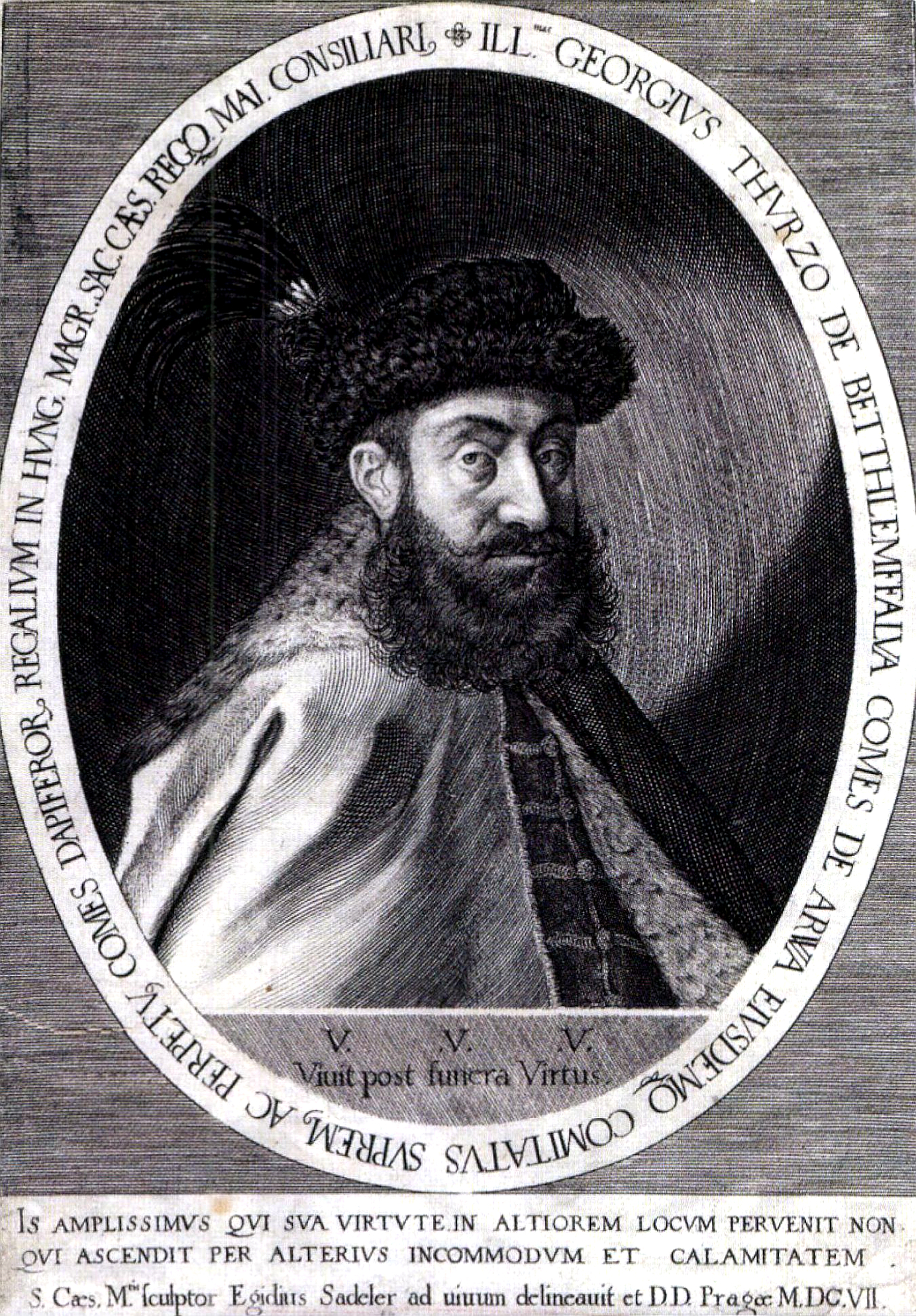 Historic portrait of Georg Thurzo, palatin of Hungaria